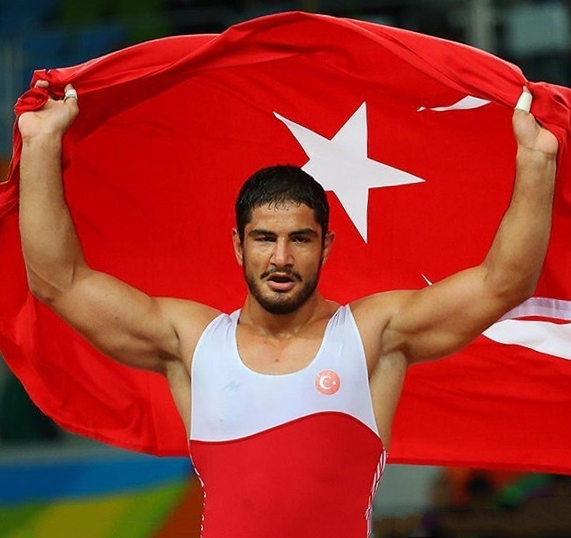 Taha Akgül from Turkey won gold medal at the 2016 Summer Olympics. Men's Freestyle Wrestling 125 kg